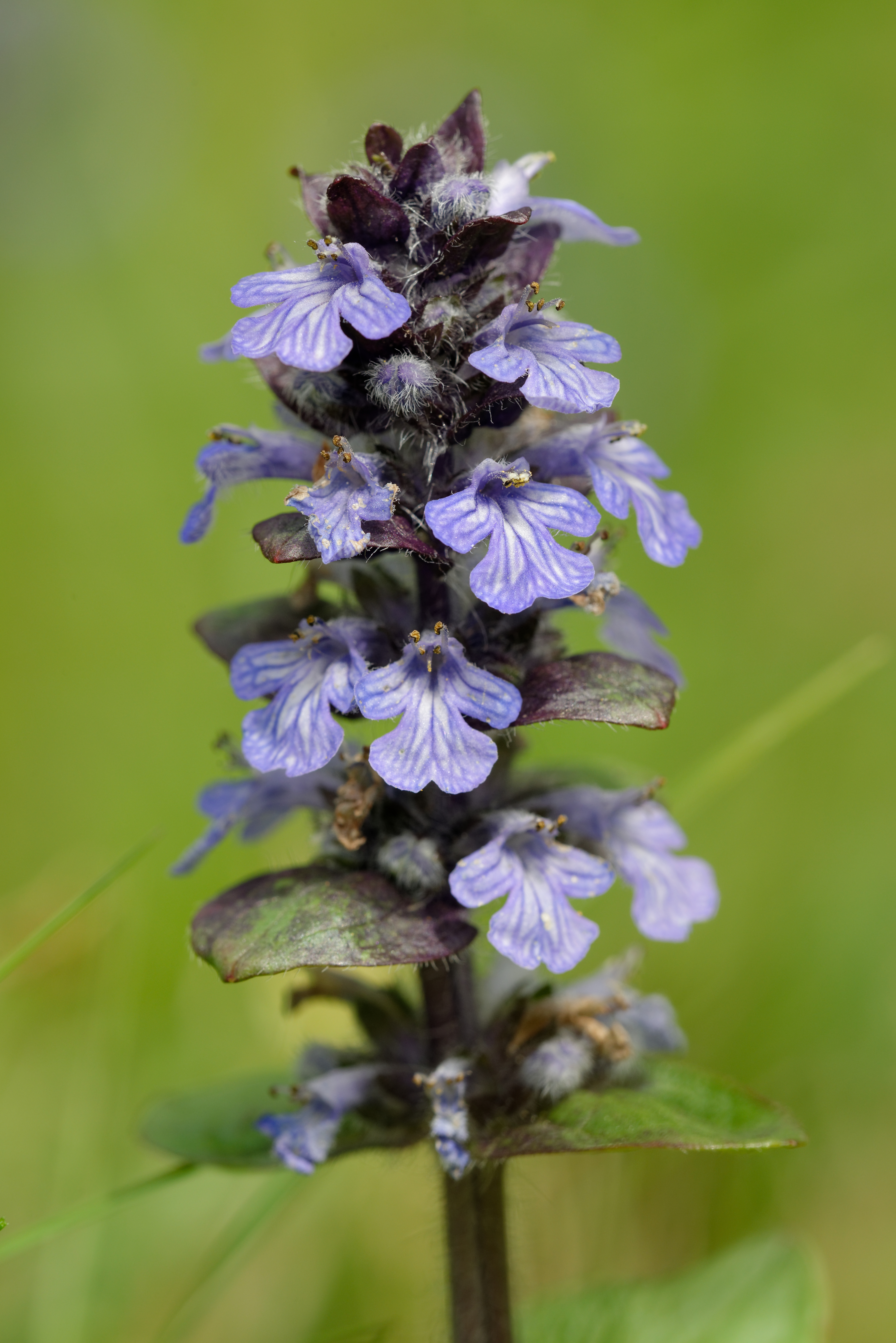 Blue bugle (Ajuga reptans) growing in a cow pasture in Paslières, France.